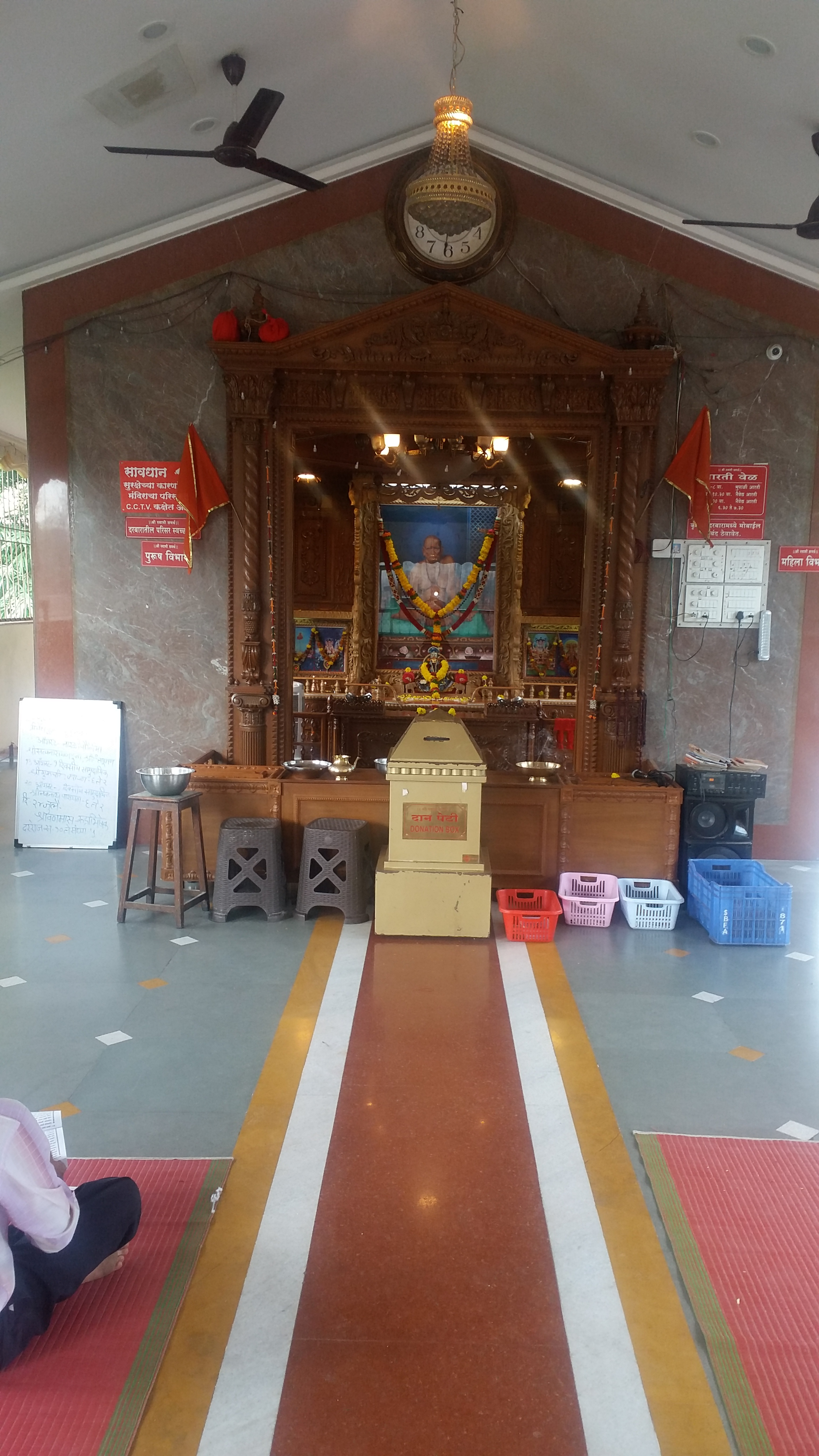 Swami Samarth Mandir, Dindori Pranit Near Saras Bag